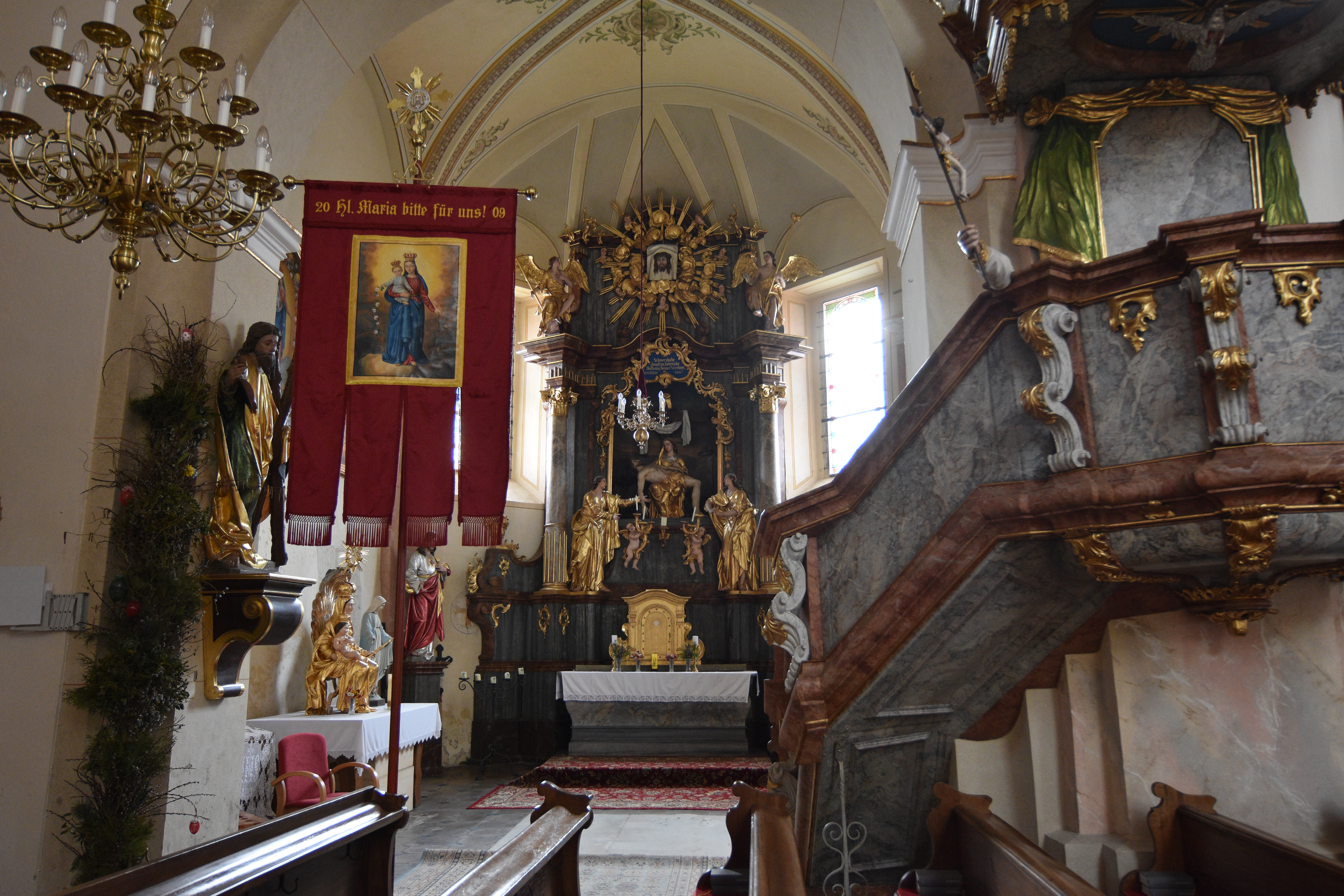 Sankt Andrä-Höch Church St. Andrä im Sausal